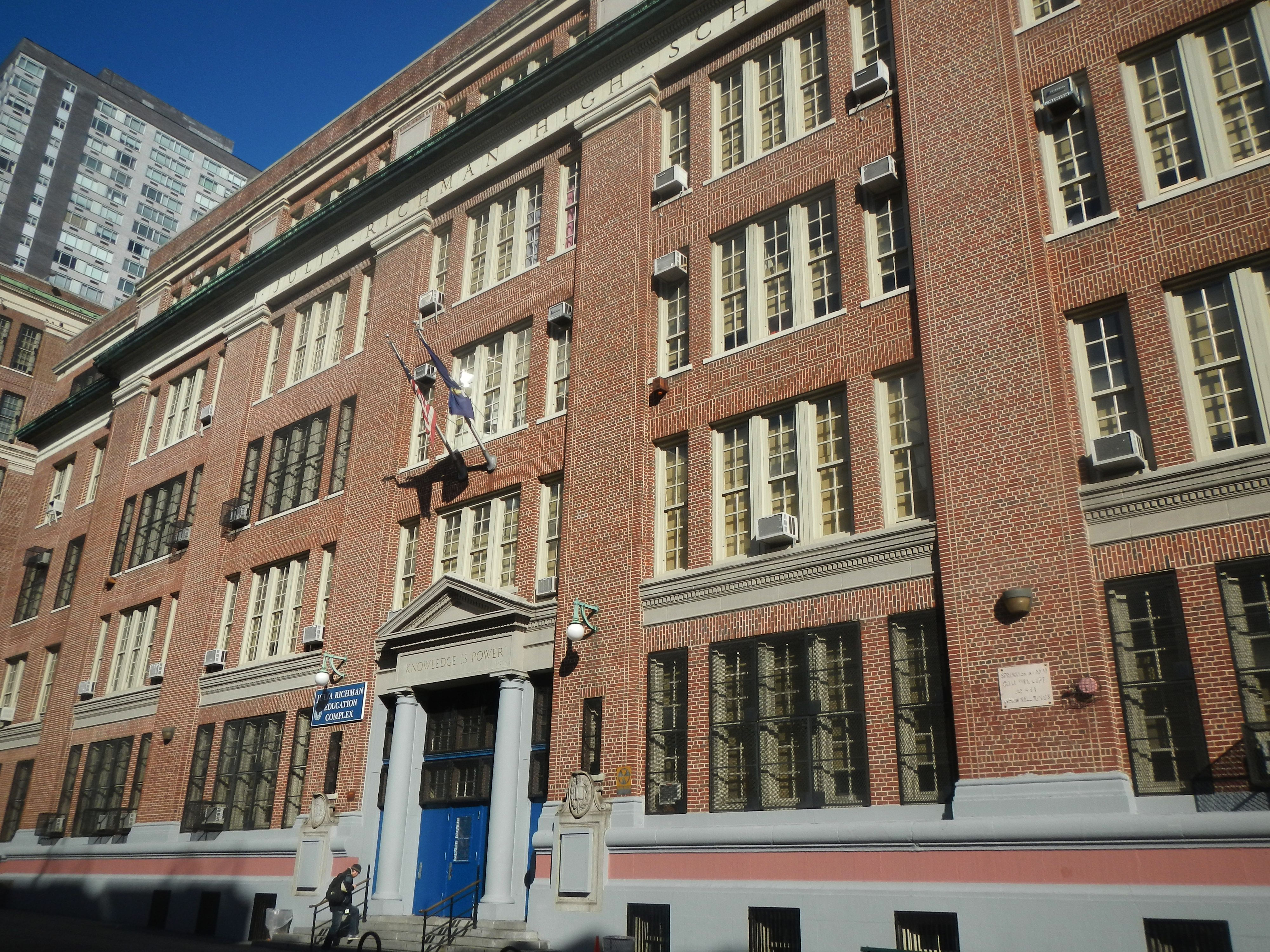 Looking north at 67th st facade on a cold sunny mornibg.